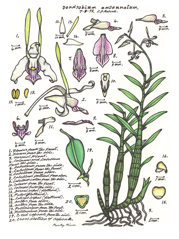 This image is one of a series by Lewis Roberts